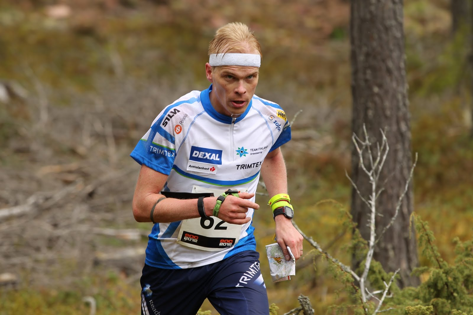 Pasi Ikonen EOC 2012 Qualification (Long)